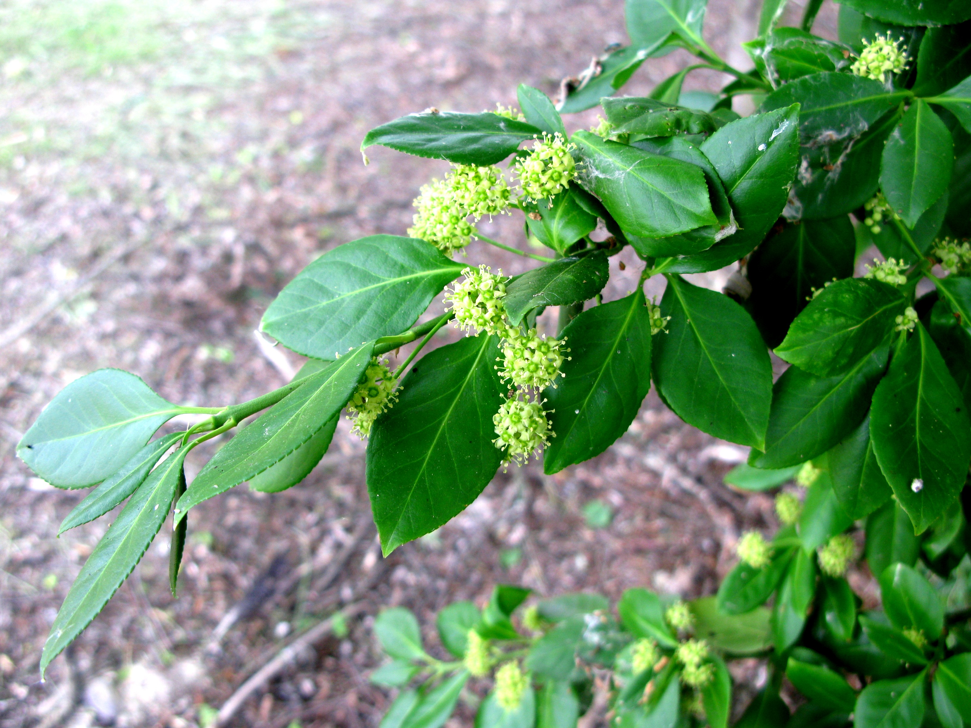 Euonymus fortunei ,Aizu area,Fukushima pref.,Japan